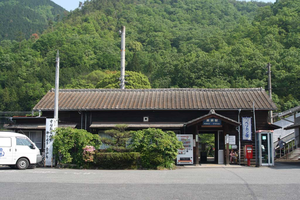 撮影地、撮影場所…伯備線 美袋駅の駅舎 撮影年月日…2007年5月9日Minagi Station building in Okayama Prefecture, Japan.